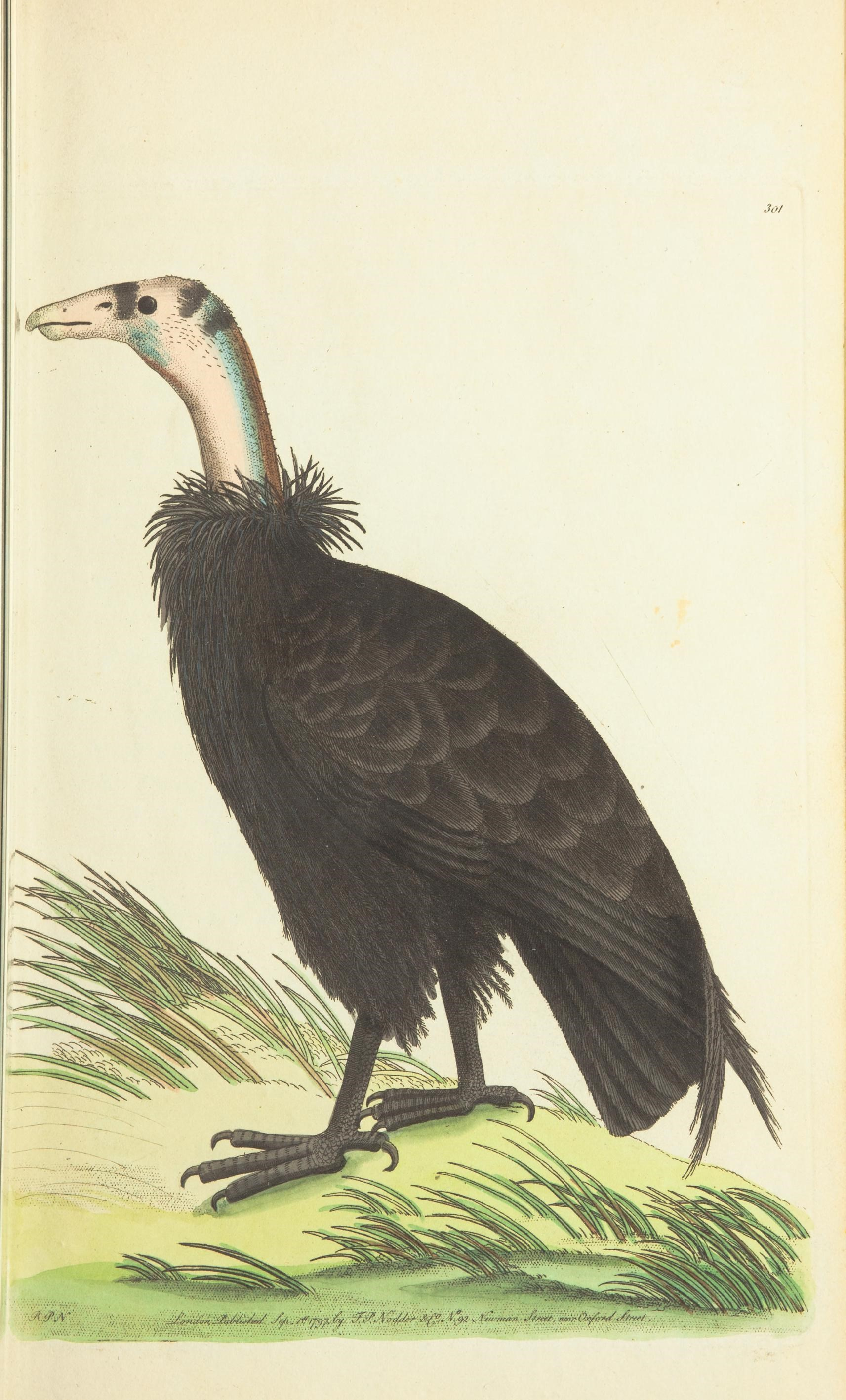 Frederick Polydore Nodder's illustration of The Californian Vulture / Vultur californianus (today Gymnogyps californianus) accompanying Shaw's initial description of the species.